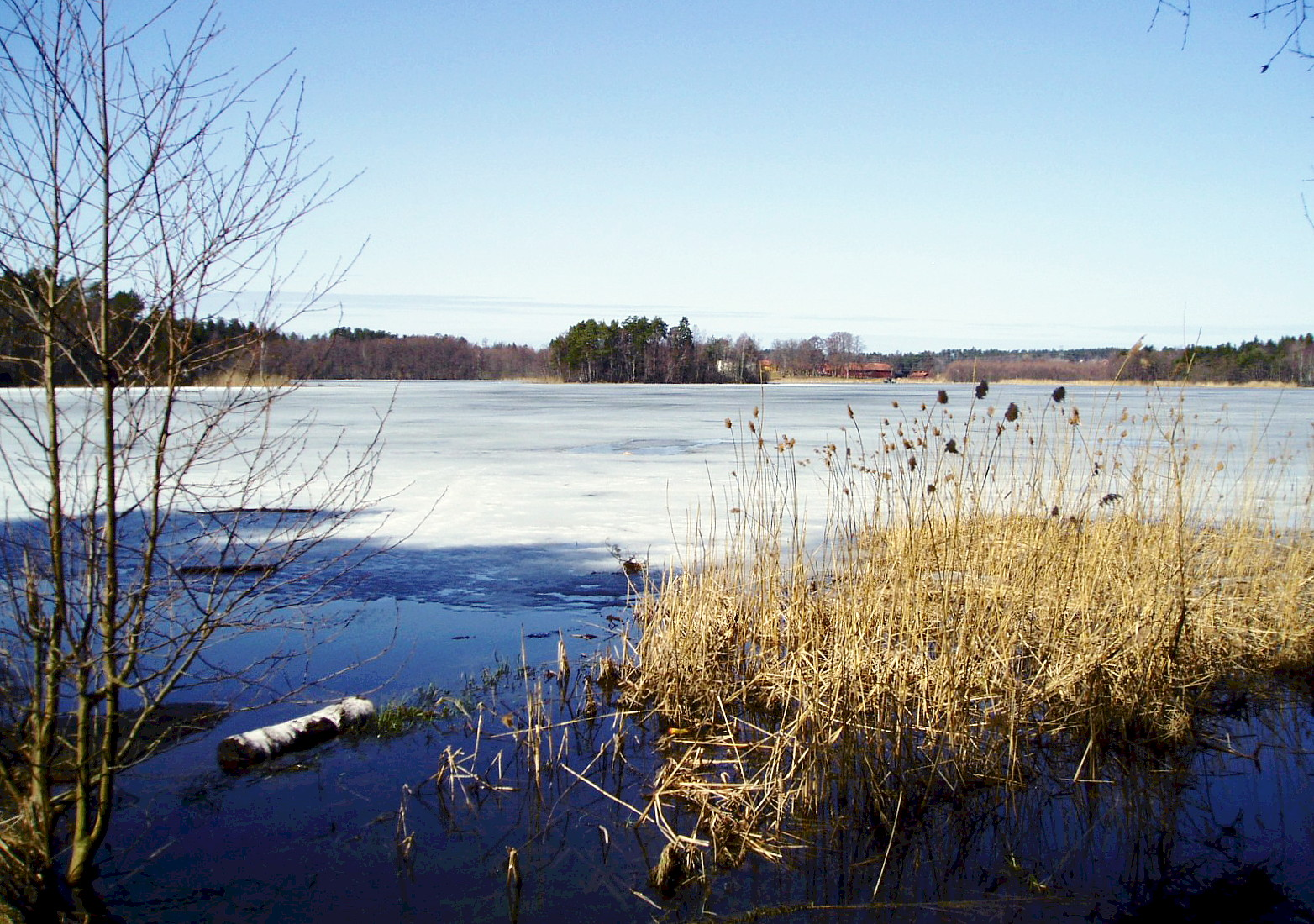 Översjön, lake in Järfälla municipality, Sweden